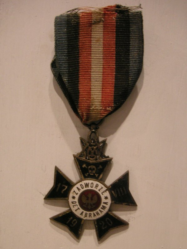 made during a summer day in Warsaw's Museum of the Polish Army; Commemorative badge for the battle of Zadwórze. For obvious reasons it was awarded posthumously only.